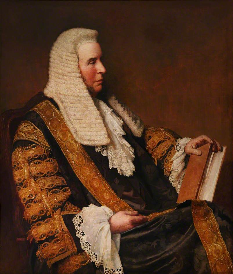 Portrait of Sir George Jessel, seated three-quarter-length in a wig and the robes of Master of the Rolls, holding a book.